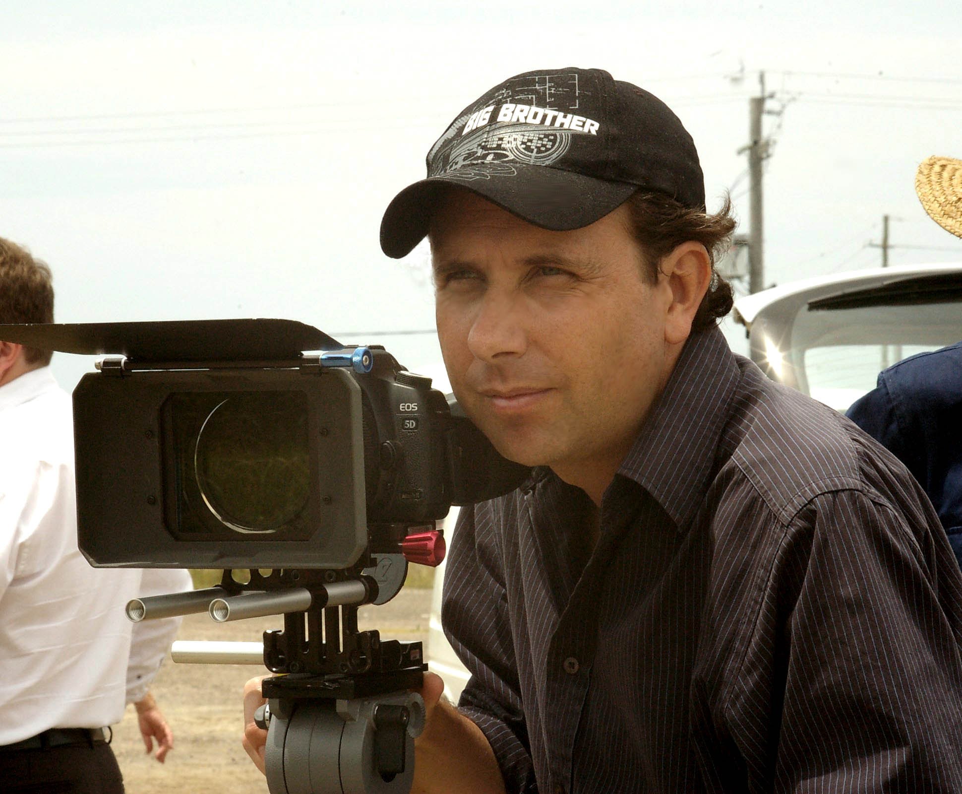 Directing True Love, Pinkenba - Brisbane